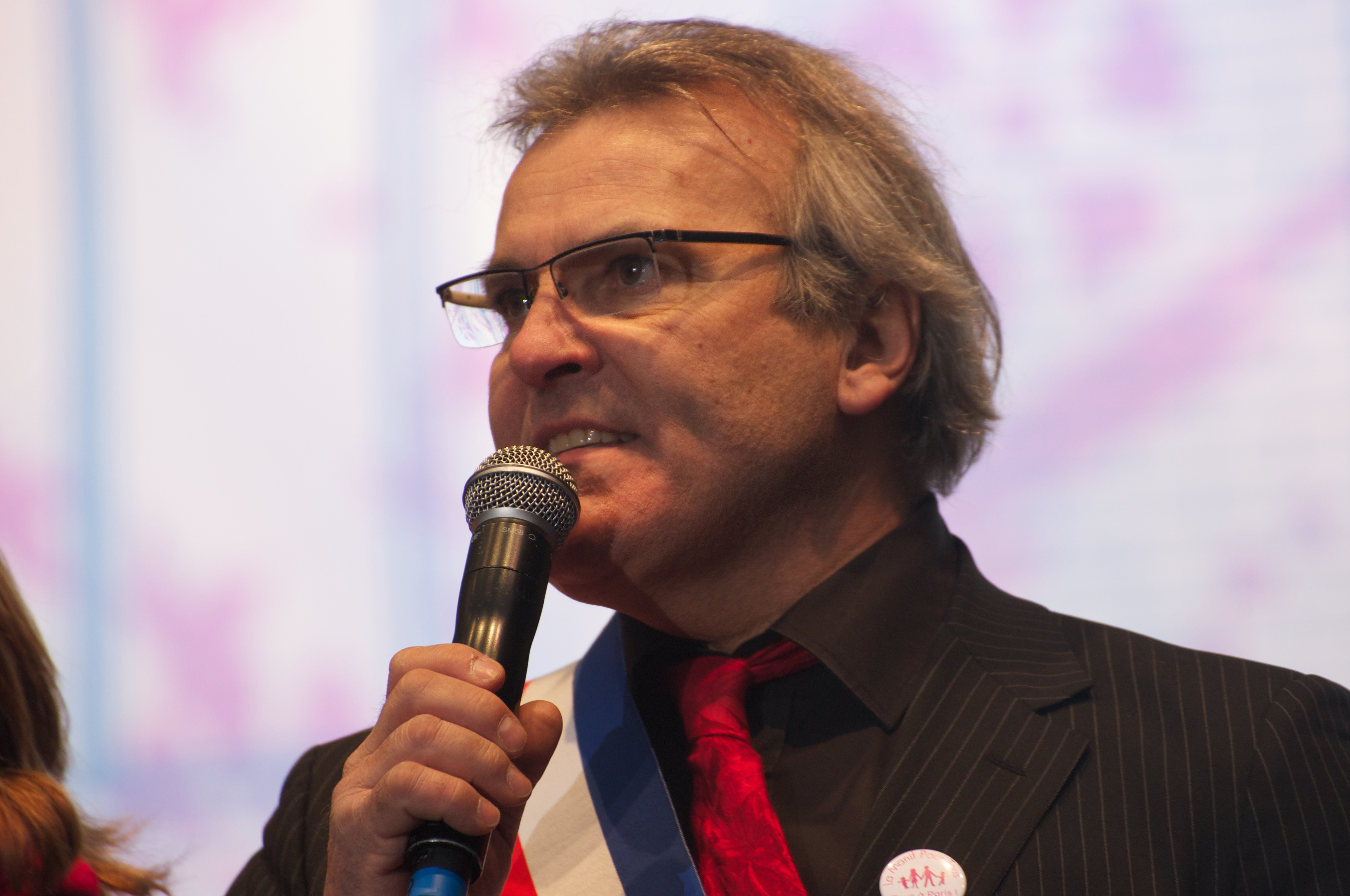 Philippe Brillault, mayor of Le Chesnay, at the Demonstration against same-sex marriage in Paris, 13 January 2013.